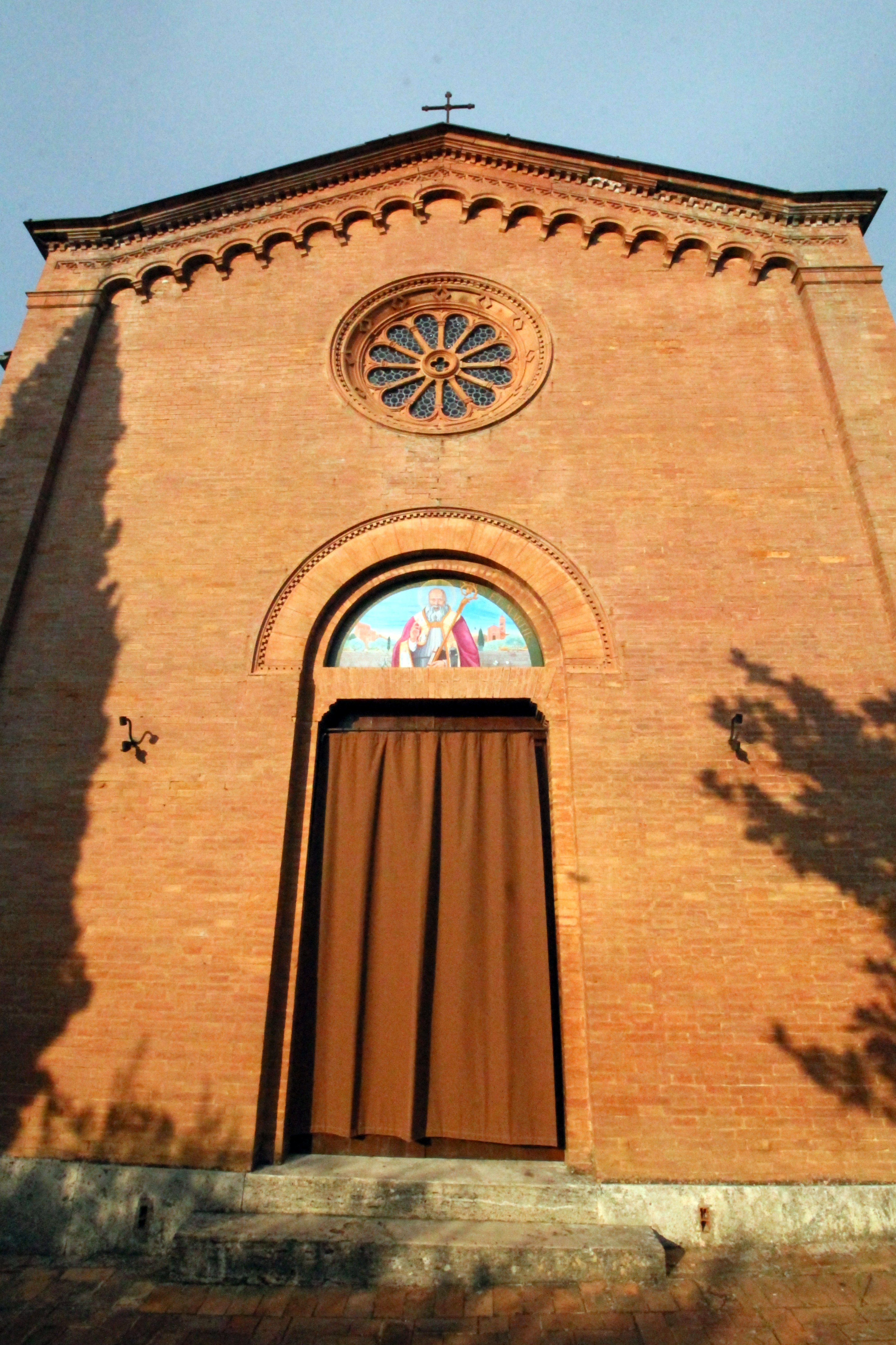 Church San Mamiliano in Valli, Valli, hamlet of Siena, Tuscany, Italy